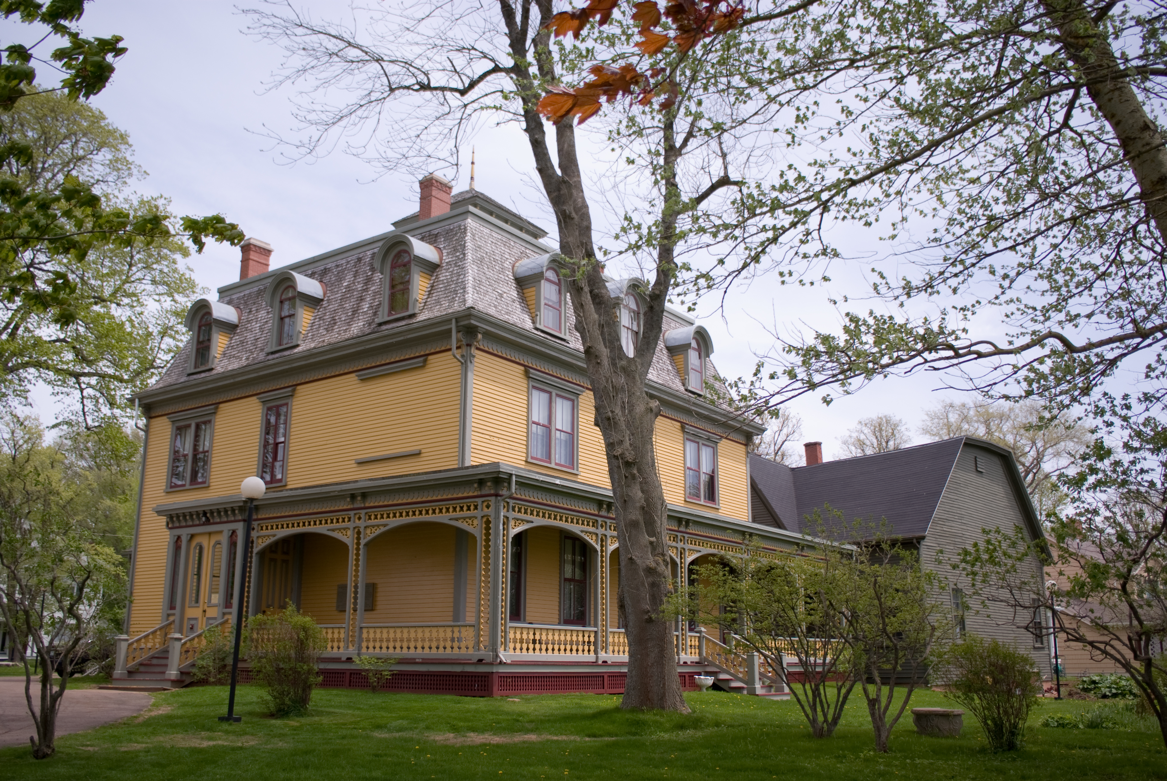 Beaconsfield House, Charlottetown